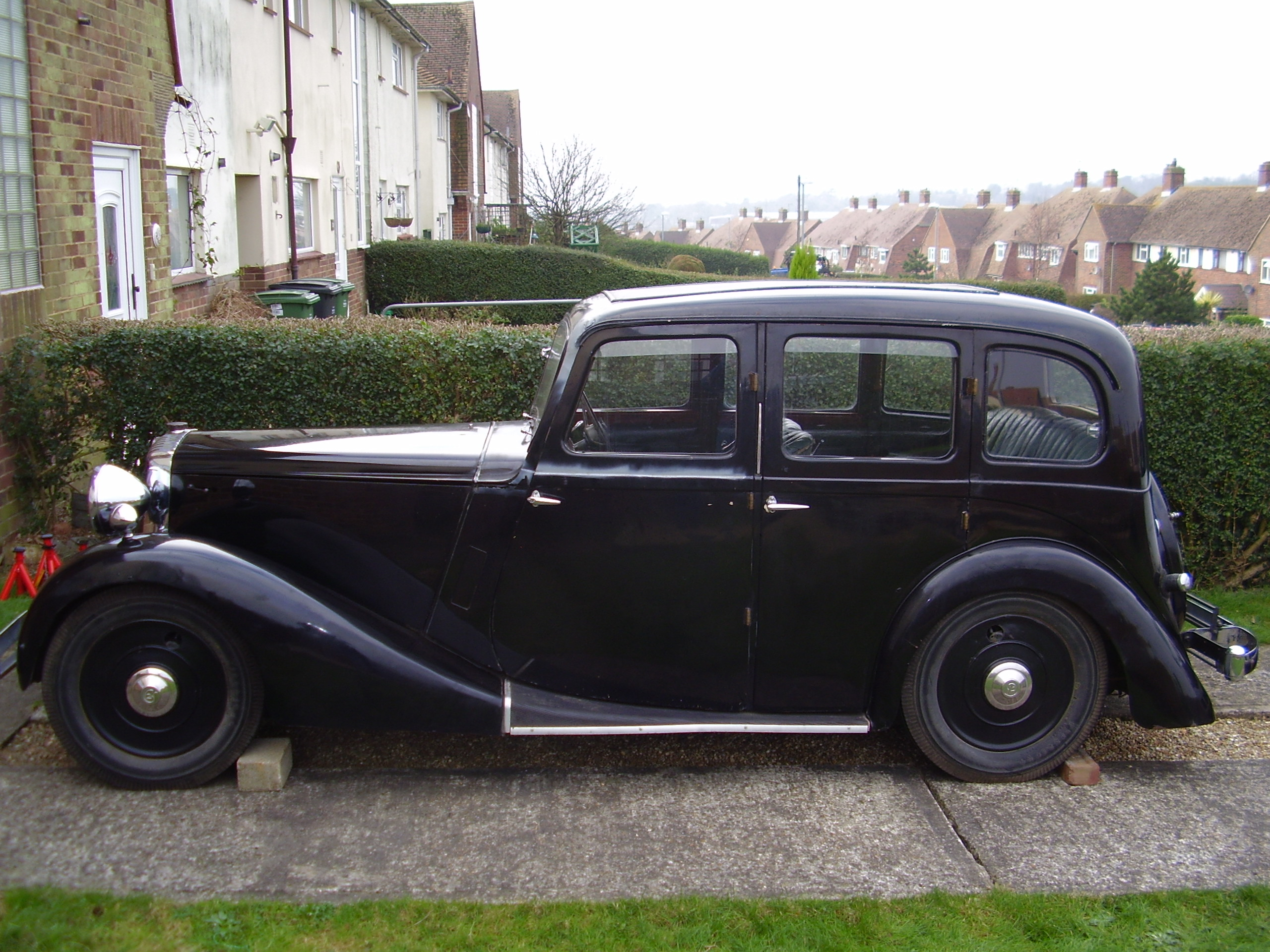 My beautiful 1936 Daimler 15, here with wheel disks in place. This photo was taken on November 23, 2007 using an Olympus FE115,X715.